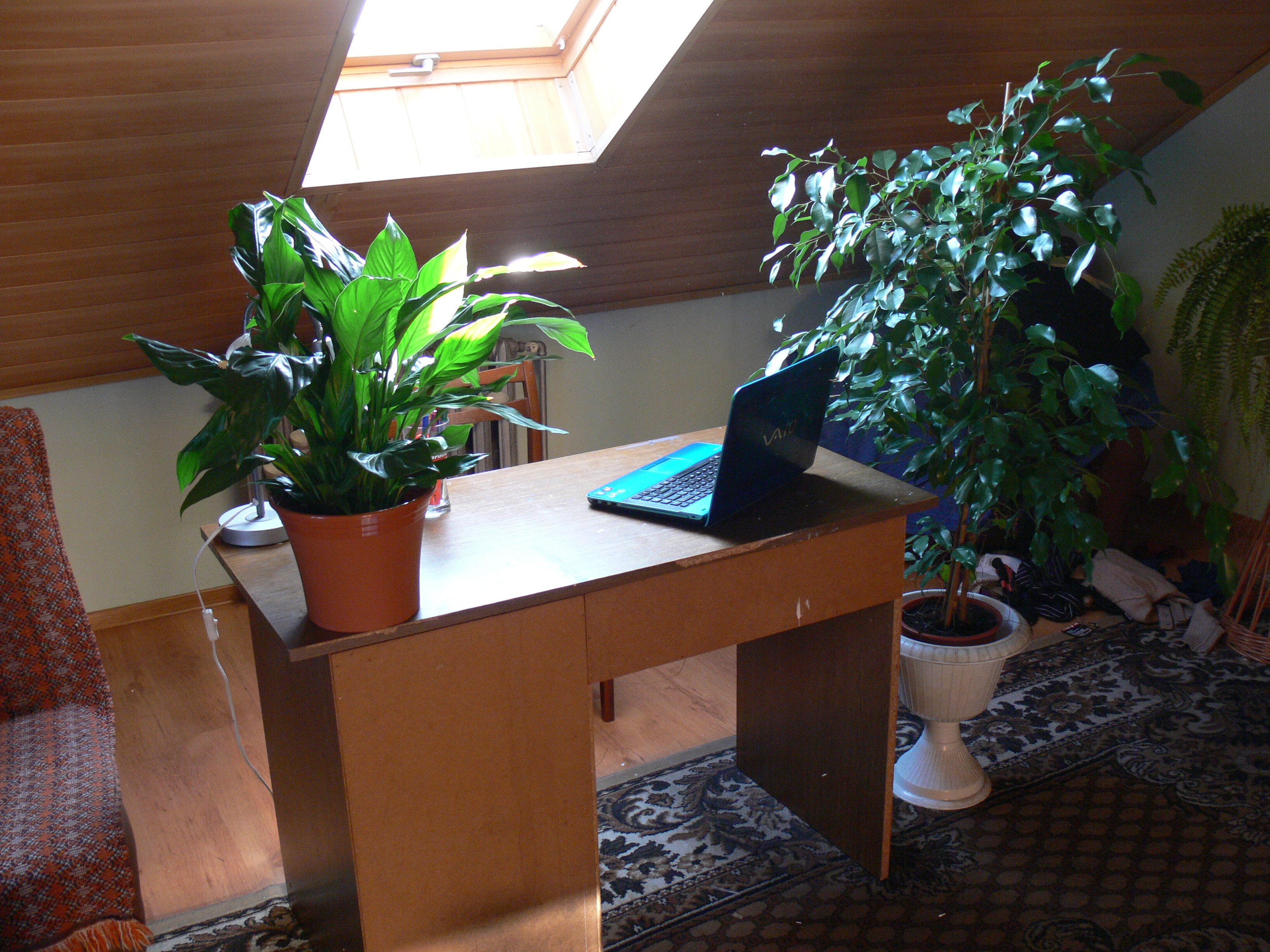 Houseplants in breathing zone, near desk.